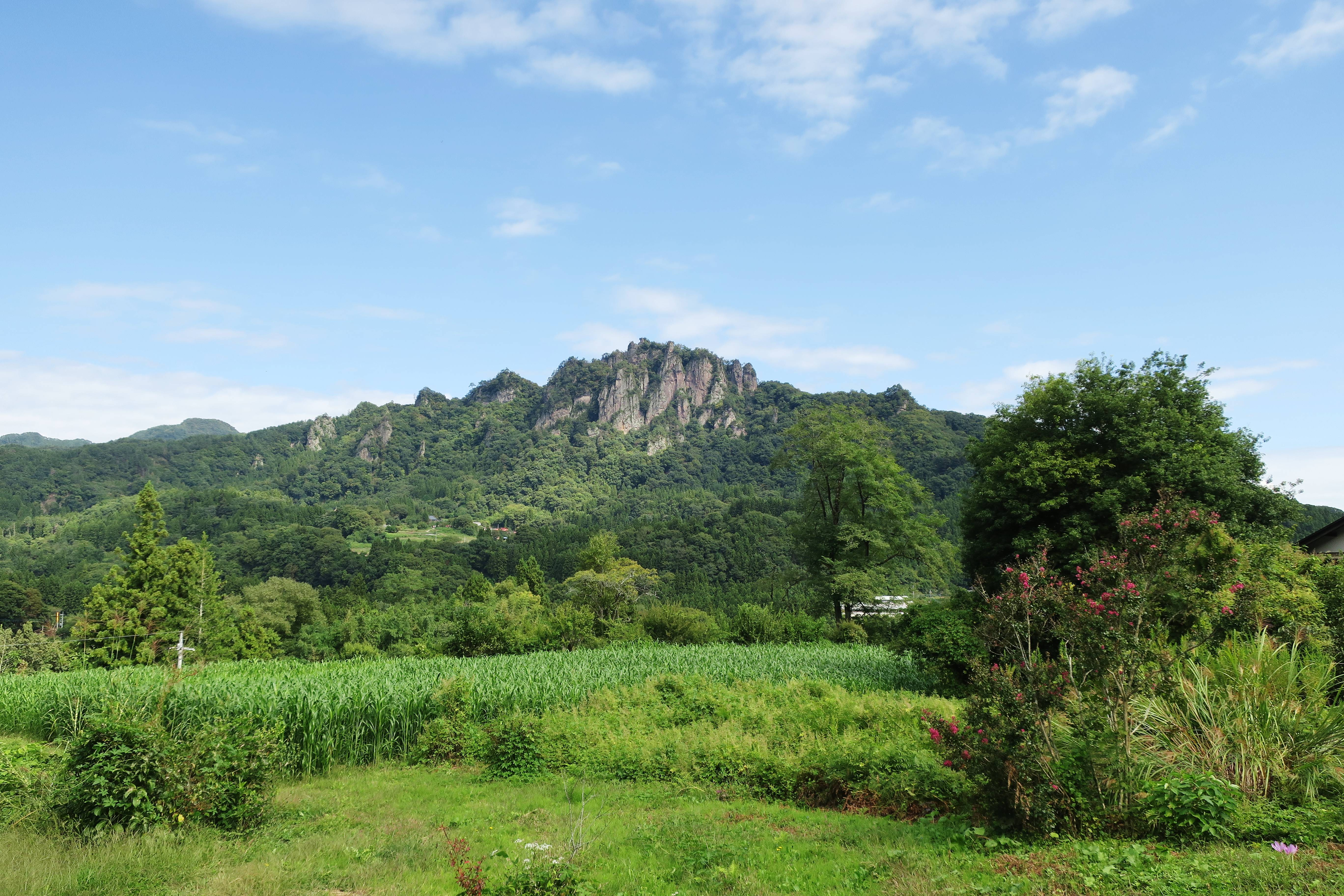 Mount Iwabitsu.